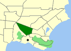 Map of the suburb of Centennial Park in Albany, Western Australia.